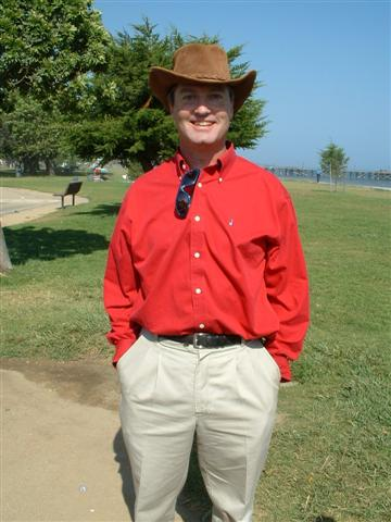 I took the picture and declare it public domain. Lubos Motl (Lumidek)